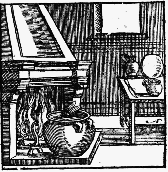 Pirro Ligorio's design for Gabriele Faerno's fable of "The Fly (Musca) in the Soup", included in the 1718 reprint of Charles Perrault's translations